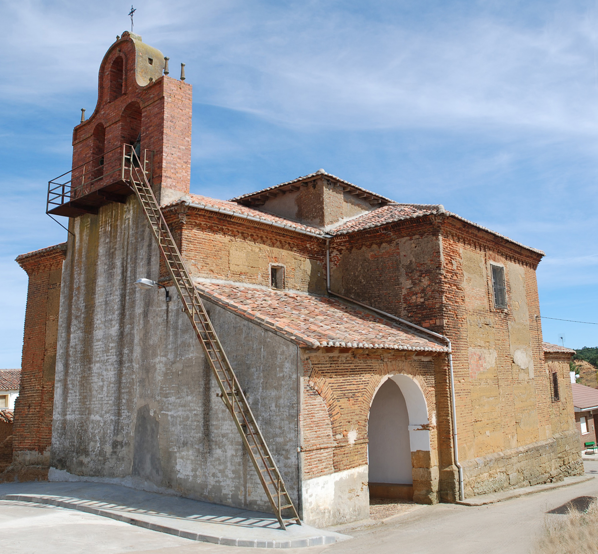 Church of San Martín de Tours in San Martín del Monte (Palencia, Castile and León).